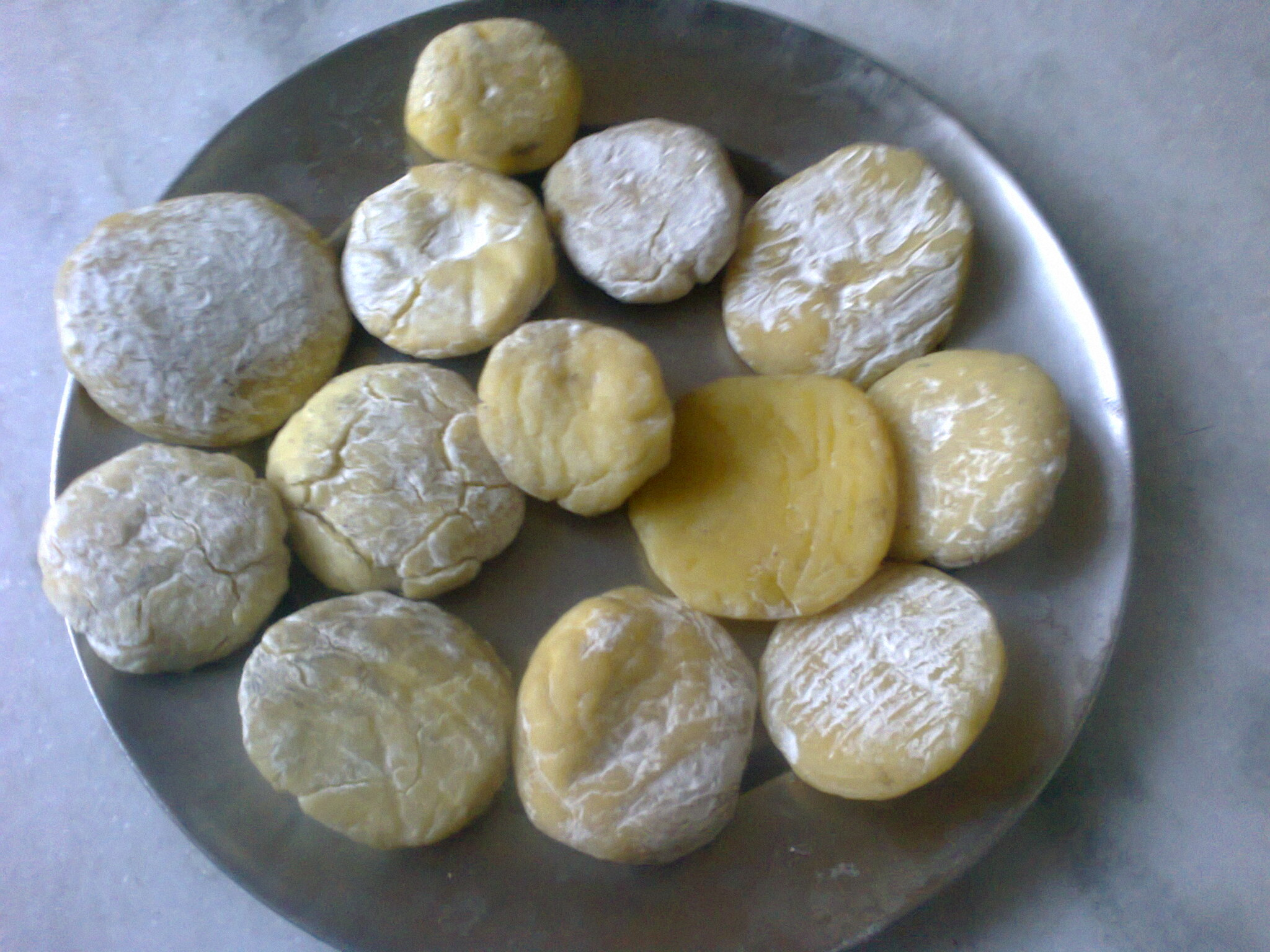 Plate Full of Famous Kalaadi of Ramnagar